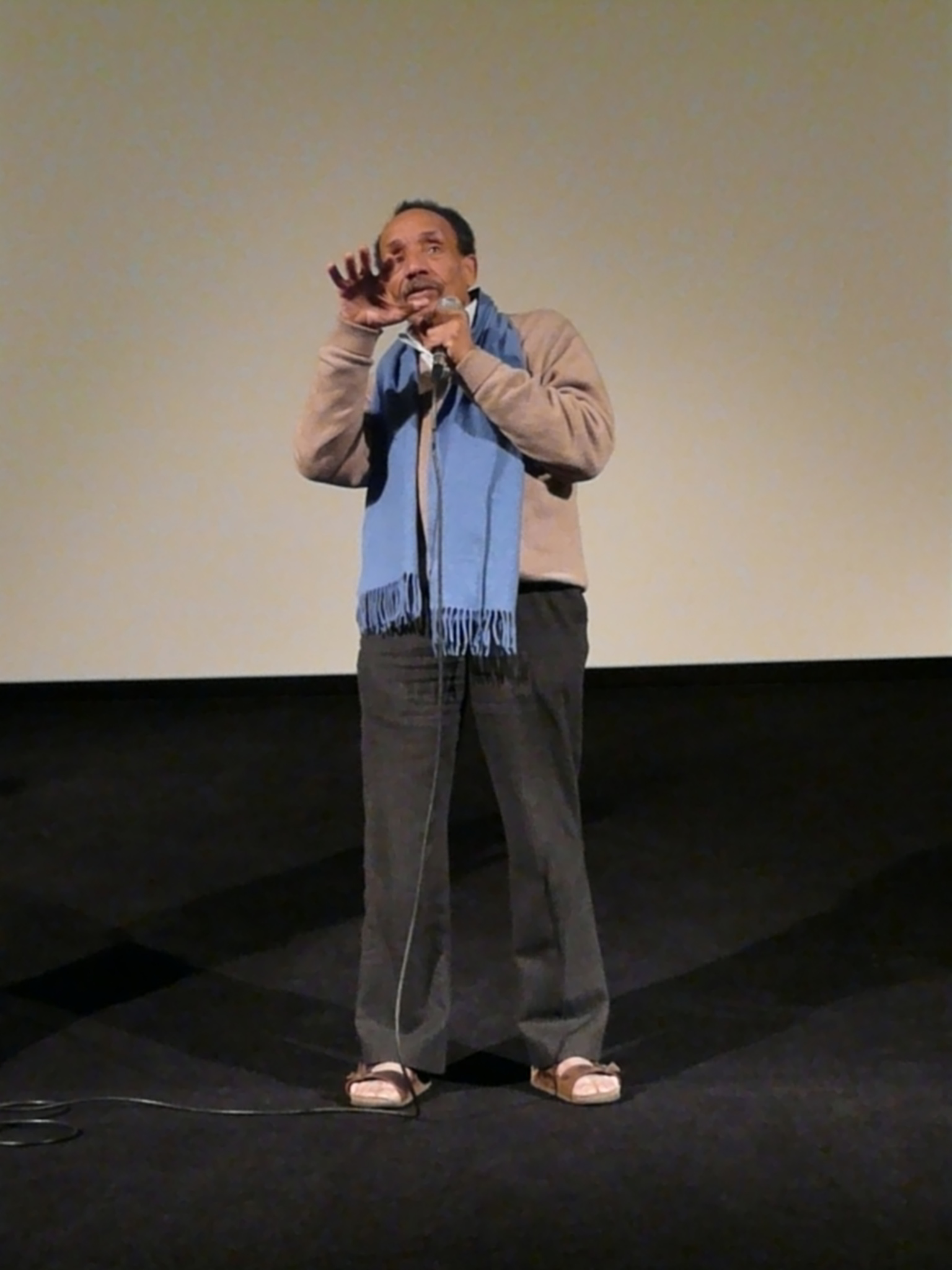 Nantes, Katorza theatre, 15 March 2010. Evening debate organised by Écopôle with Pierre Rabhi and Alain Aubry from the Colibris movement. On this photo: Pierre Rabhi.